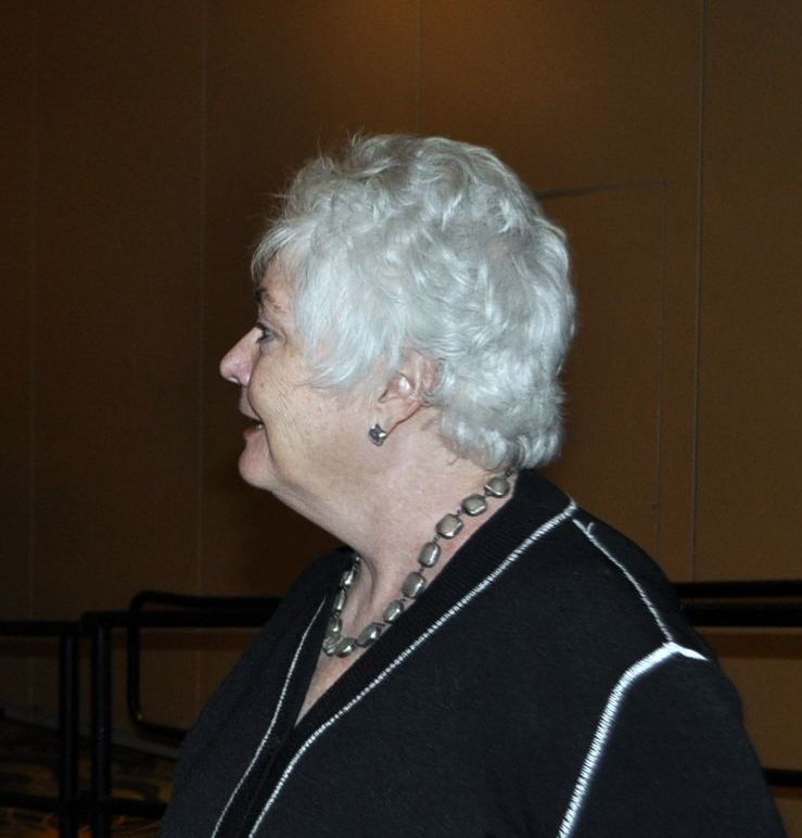 2015-02-22 MCDCC _609 Mary Beth Cahill + Mary Ann Keeffe